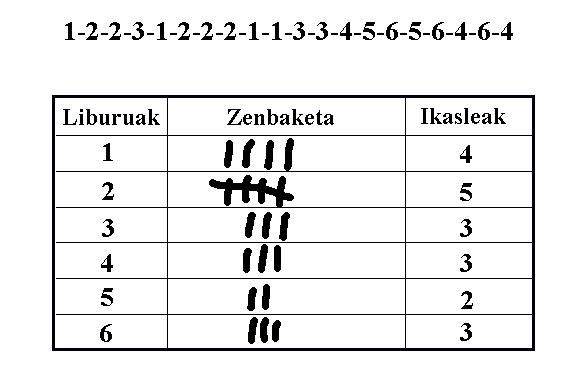 frequency